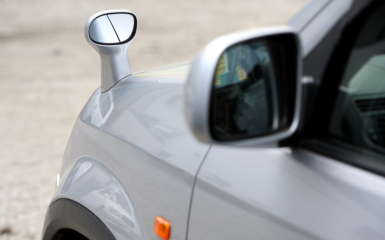 Supplemental mirror ( Honda CR-V )